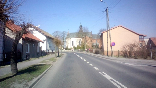 The city of Biezun, Poland